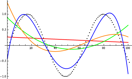 This graph shows a series of points (generated by a Sin function) approximated by polinomial curves (red curve is linear, green is quadratic, orange is cubic and blue is 4th degree).